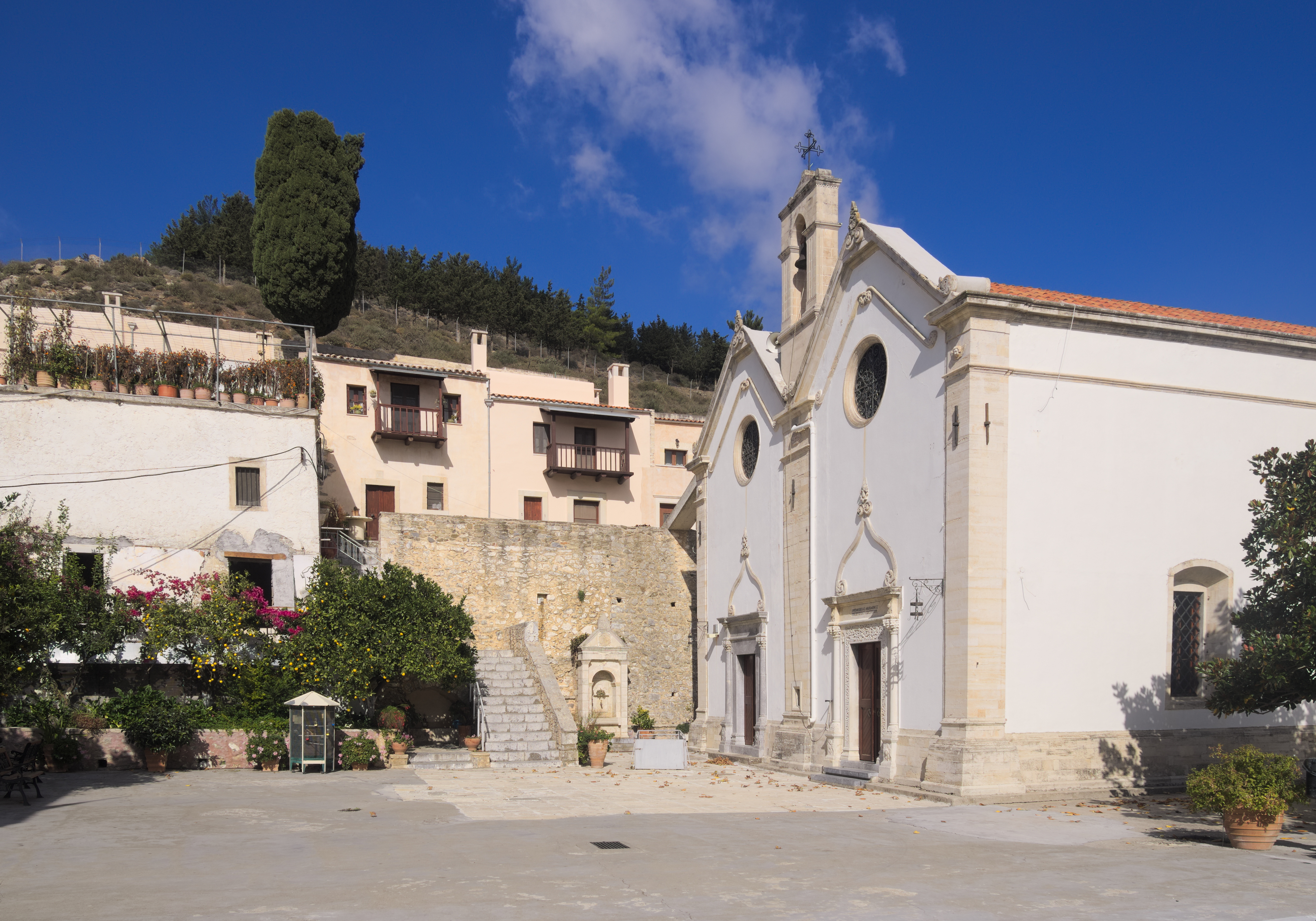 View of the interior of Epanosifi monastery, Archanes-Asterousia.